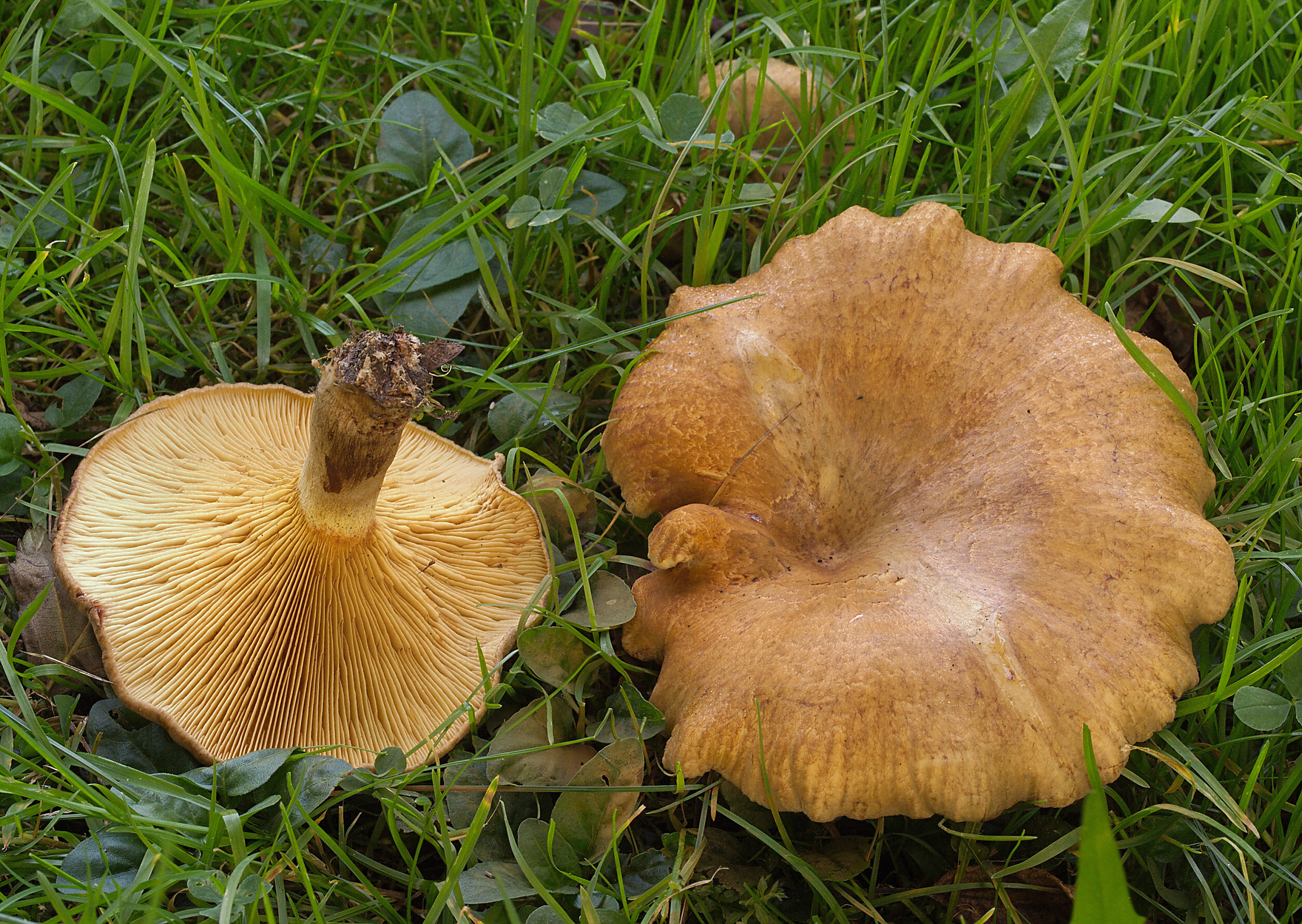 Alder Roll-rim (Paxillus rubicundulus)